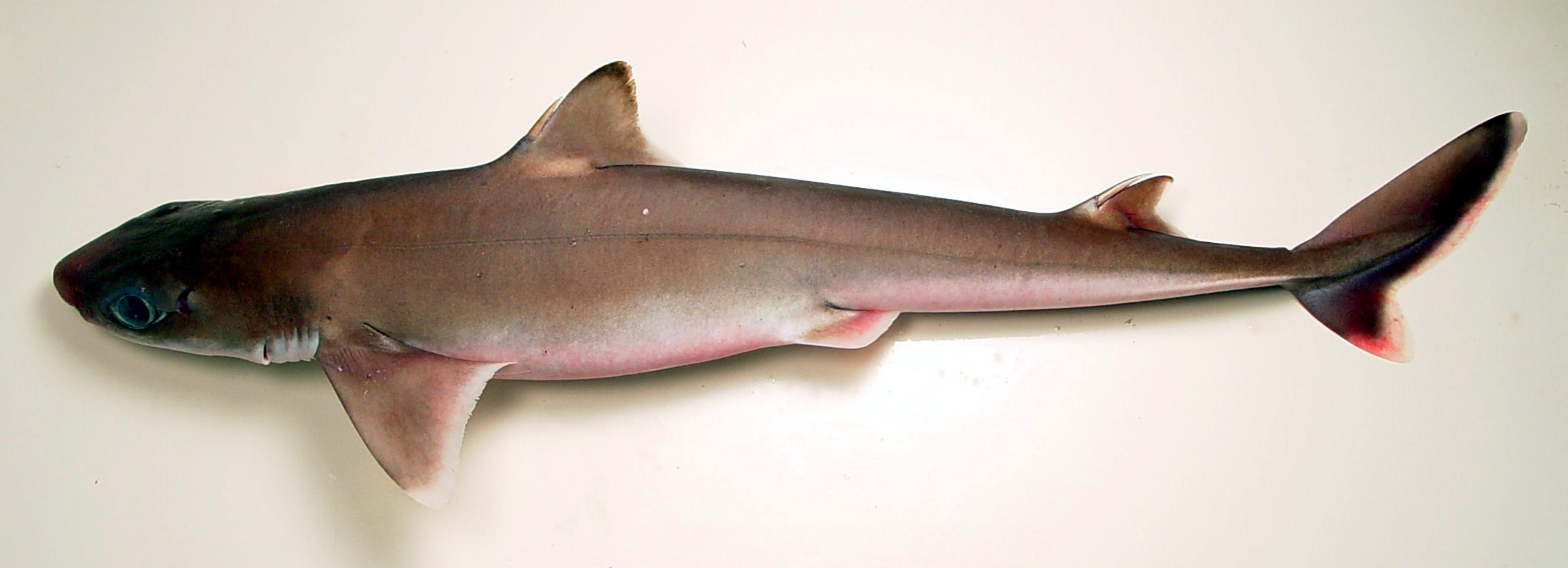 Cuban dogfish (Squalus cubensis) from Gulf of Mexico